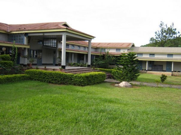 The largest school of Umrangso town. It was established in the year 1999 in the lush green Residential Campus of Kopili Hydro Electric Project (KHEP), NEEPCO, Umrangso, in the Dima Hasao district of Assam.